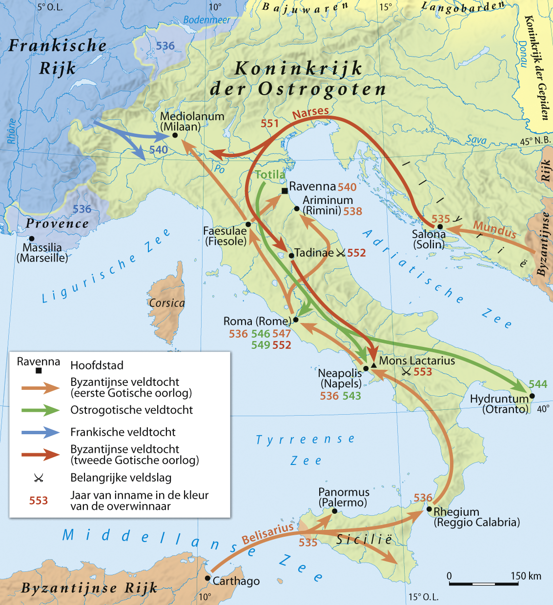 Gothic War (535-554), Dutch version